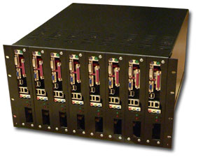 Blade server, server case, server blade, open blade solution